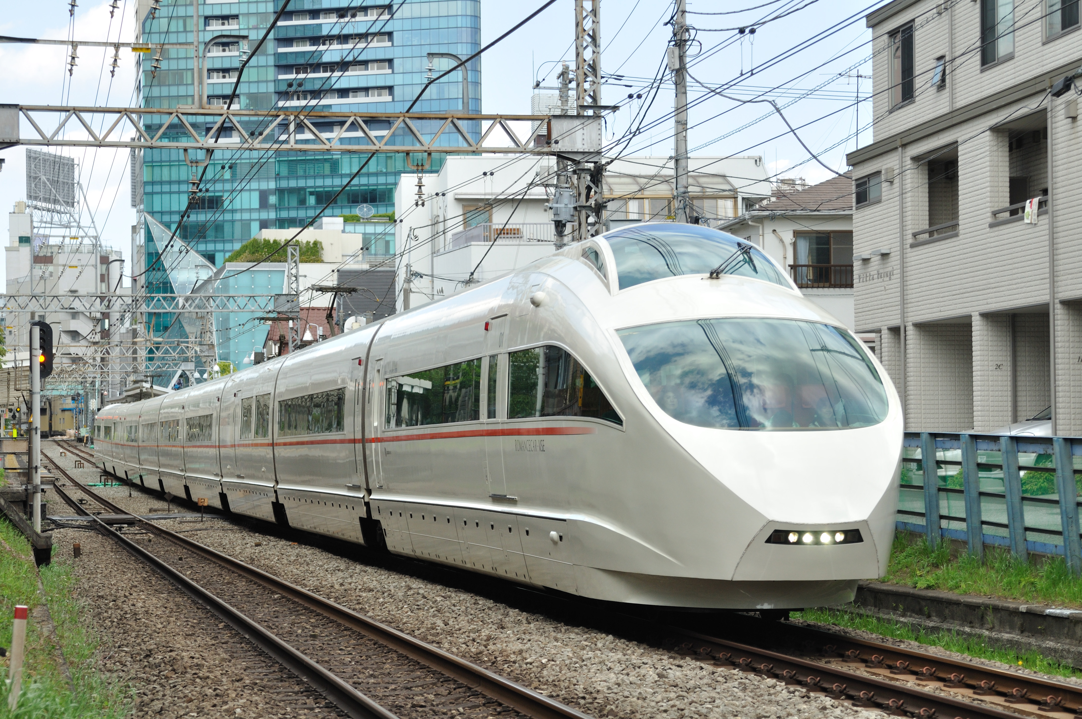 An Odakyu 50000 series VSE Romancecar EMU